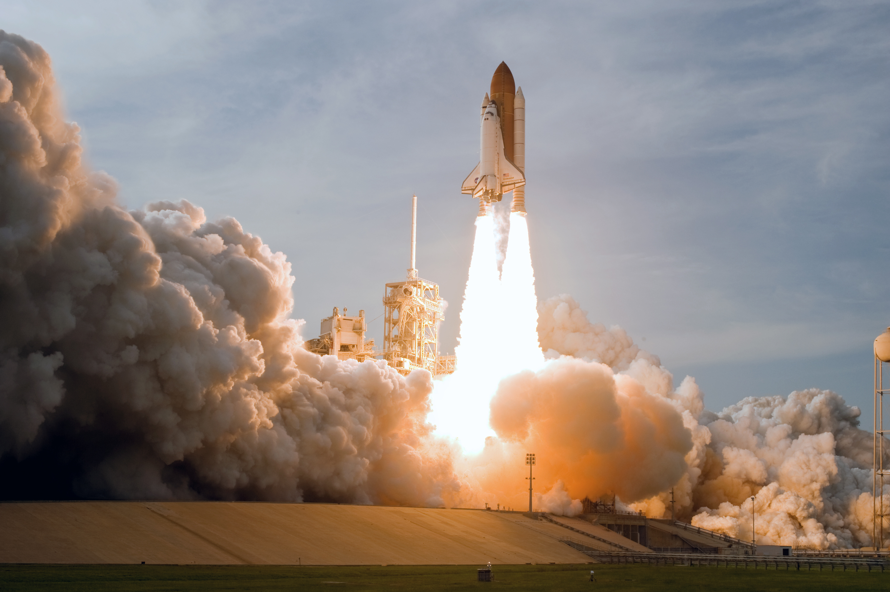 Columns of fire cast an orange glow on the smoke and steam from space shuttle Endeavour's launch on the STS-127 mission from NASA Kennedy Space Center's Launch Pad 39A. Liftoff was on-time at 6:03 p.m. EDT. Today was the sixth launch attempt for the STS-127 mission. The launch was scrubbed on June 13 and June 17 when a hydrogen gas leak occurred during tanking due to a misaligned Ground Umbilical Carrier Plate. The mission was postponed July 11, 12 and 13 due to weather conditions near the Shuttle Landing Facility at Kennedy that violated rules for launching, and lightning issues. Endeavour will deliver the Japanese Experiment Module's Exposed Facility and the Experiment Logistics Module-Exposed Section in the final of three flights dedicated to the assembly of the Japan Aerospace Exploration Agency's Kibo laboratory complex on the International Space Station.